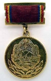 The badge of the State Prize of the Romanian People's Republic, 1st class